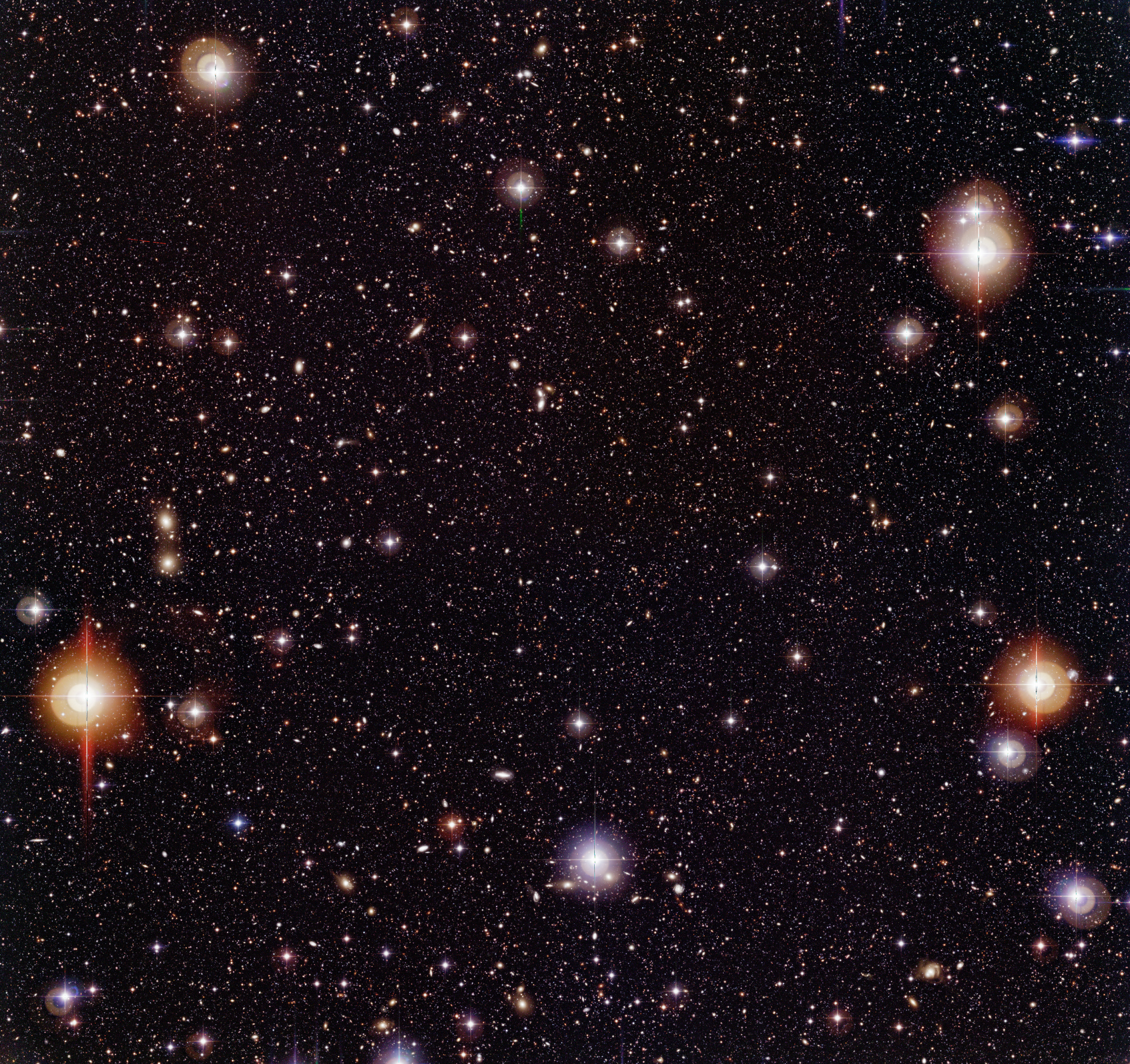 This image shows a three-colour composite image of the Chandra Deep Field South (CDF-S) , obtained with the Wide Field Imager (WFI) camera on the 2.2-m MPG/ESO telescope at the ESO La Silla Observatory (Chile). It was produced by the combination of about 450 images with a total exposure time of nearly 50 hours. The field measures 36 x 34 arcmin 2 ; North is up and East is left.